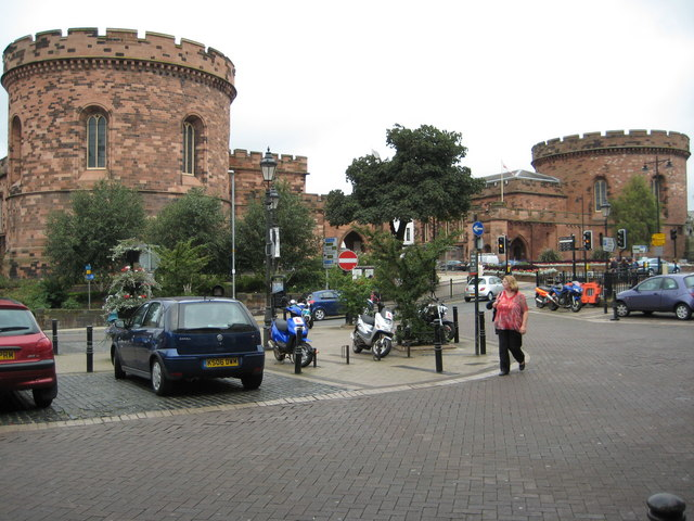 The Citadal, Carlisle Two red sand stone towers on the southern end of Carlisle city centre.